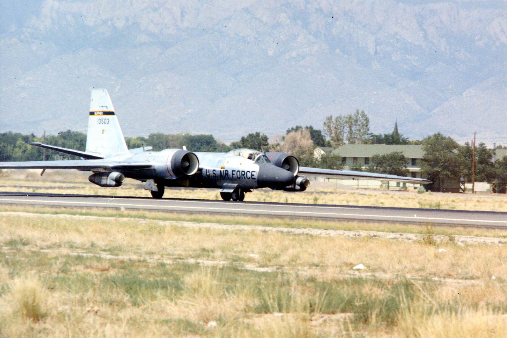 General Dynamics WB-57F Canberra taxiing (SN 63-13286). Originally, aircraft was B-57B, SN 52-1589. This was the first RB-57F converted